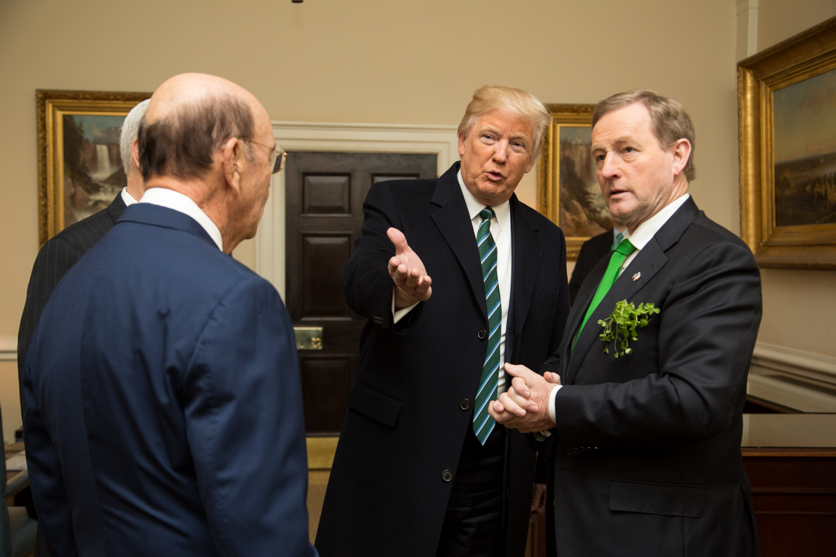 President Donald J. Trump introduces Enda Kenny, the Taoiseach of Ireland, to Wilbur Ross, U.S. Secretary of Commerce, in the West Wing Lobby on Thursday, March 16, 2017, upon the Prime Minister's arrival to the White House. (Official White House Photo by Shealah Craighead)